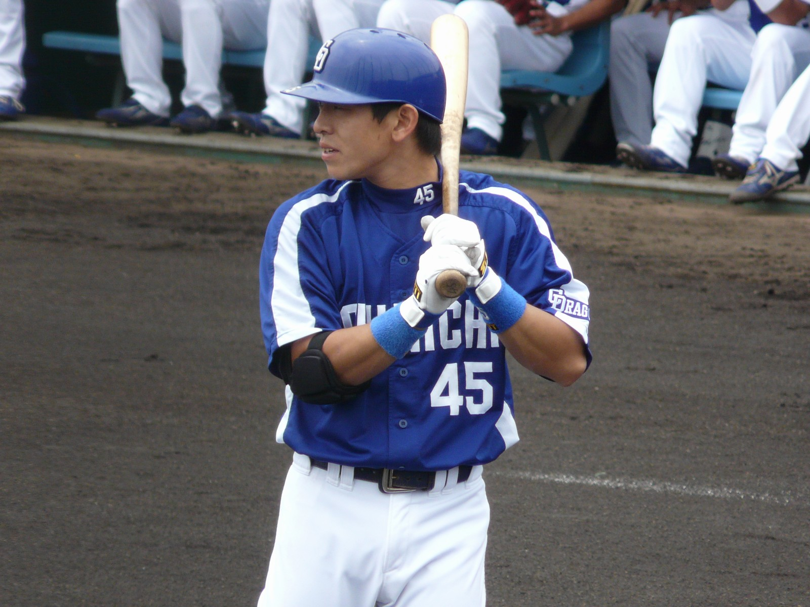 Ryosuke Morioka, infielder of the Chunichi Dragons, at Hanshin Naruohama Baseball Ground.